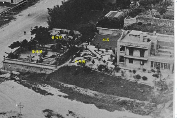 SJACS Campus, Hong Kong. A villa at that time.